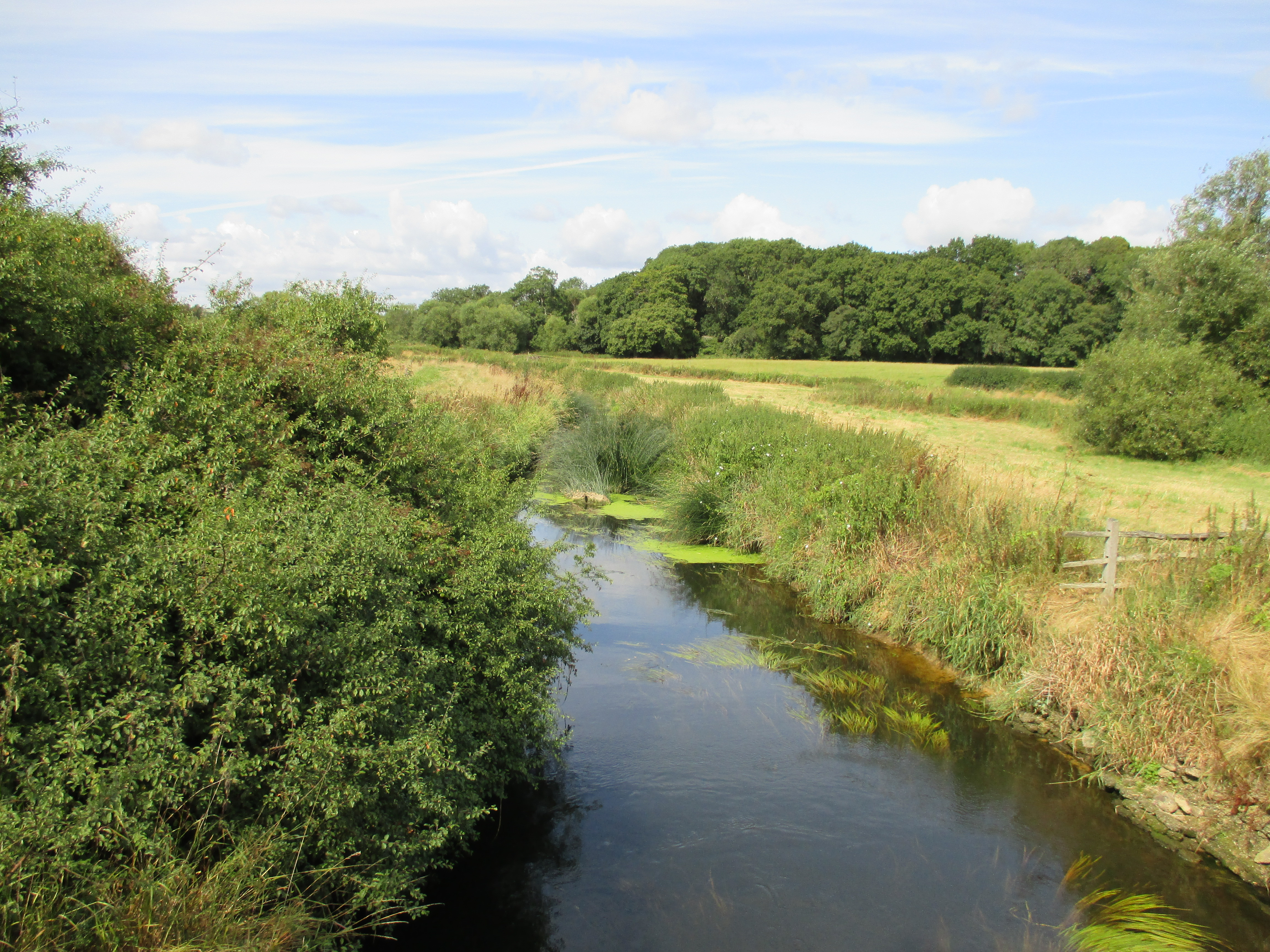 Looking downstream along the eastern River Adur from a footbridge half a mile west of Wineham Bridge. The yellow colouring on both banks comes from patches of dead grass.